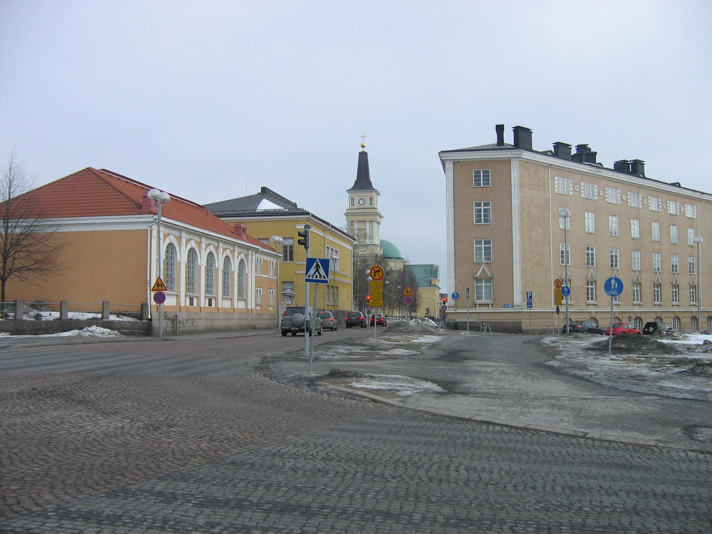 Pokkitörmä or Pokkinen in the city of Oulu, Finland. Oulun Lyseo Upper Secondary School on the left and Oulu cathedral on the background.